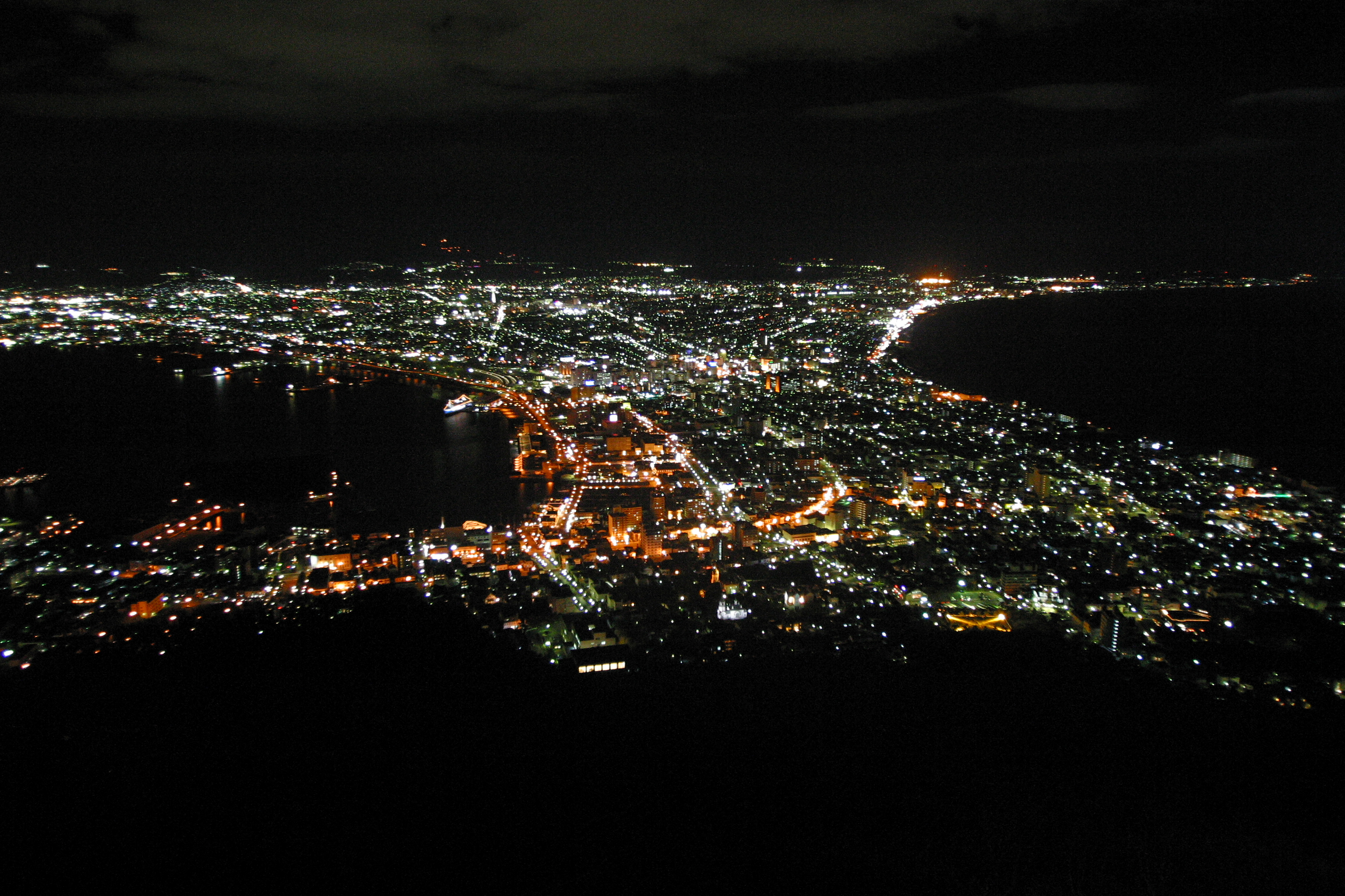 The night view in Hakodate, Hokaido, Japan.